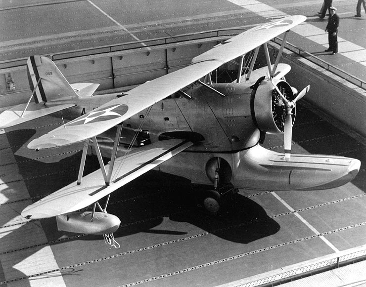 A U.S. Navy Grumman J2F-1 Duck utility plane (BuNo 0169) on the midships elevator of the aircraft carrier USS Yorktown (CV-5), 2 November 1937. This aircraft was plane No. 4 of the ship's utility unit.